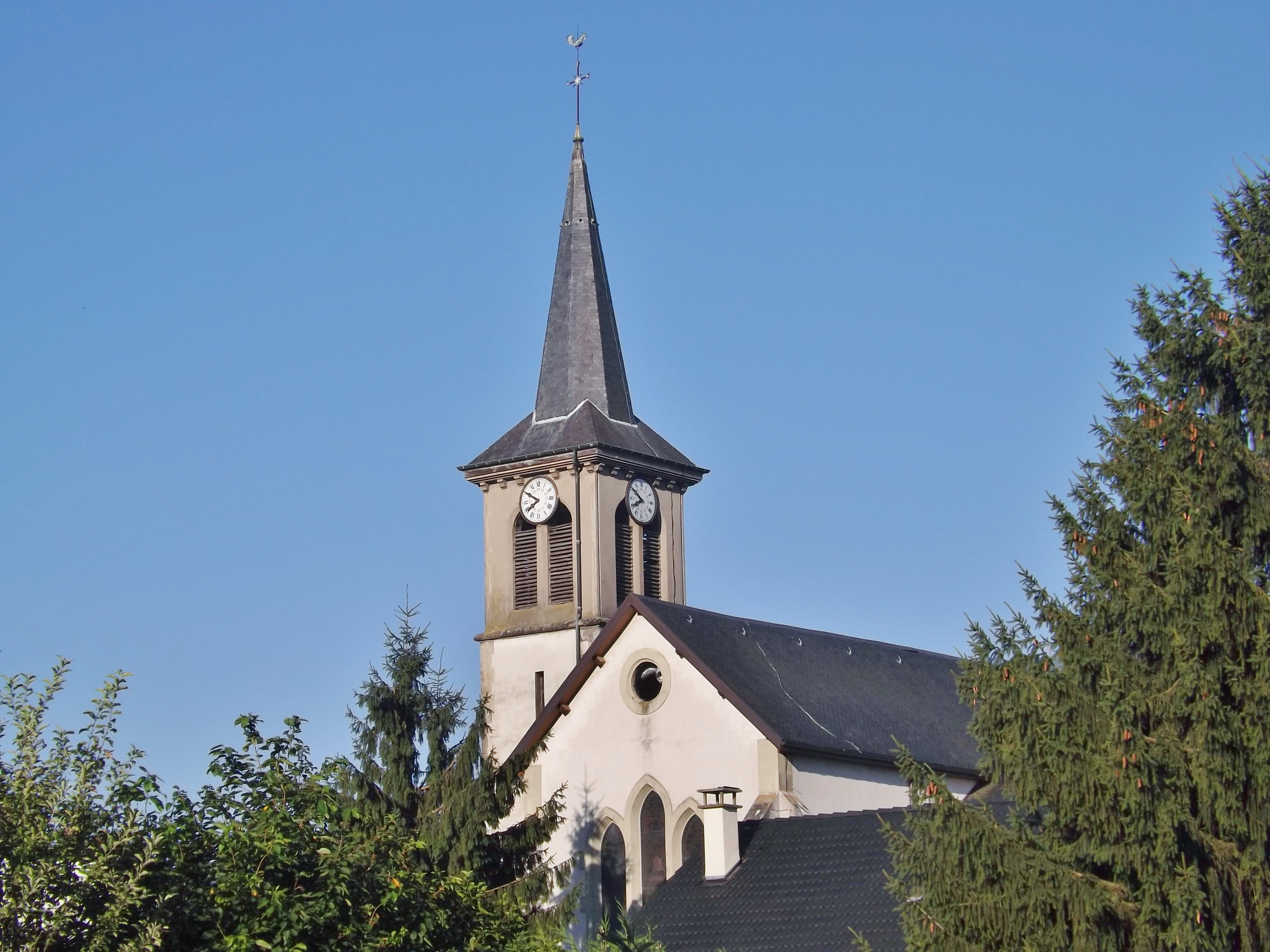 Sight, in the morning, of the bell tower of the church of Viviers-du-Lac, in Savoie, France.